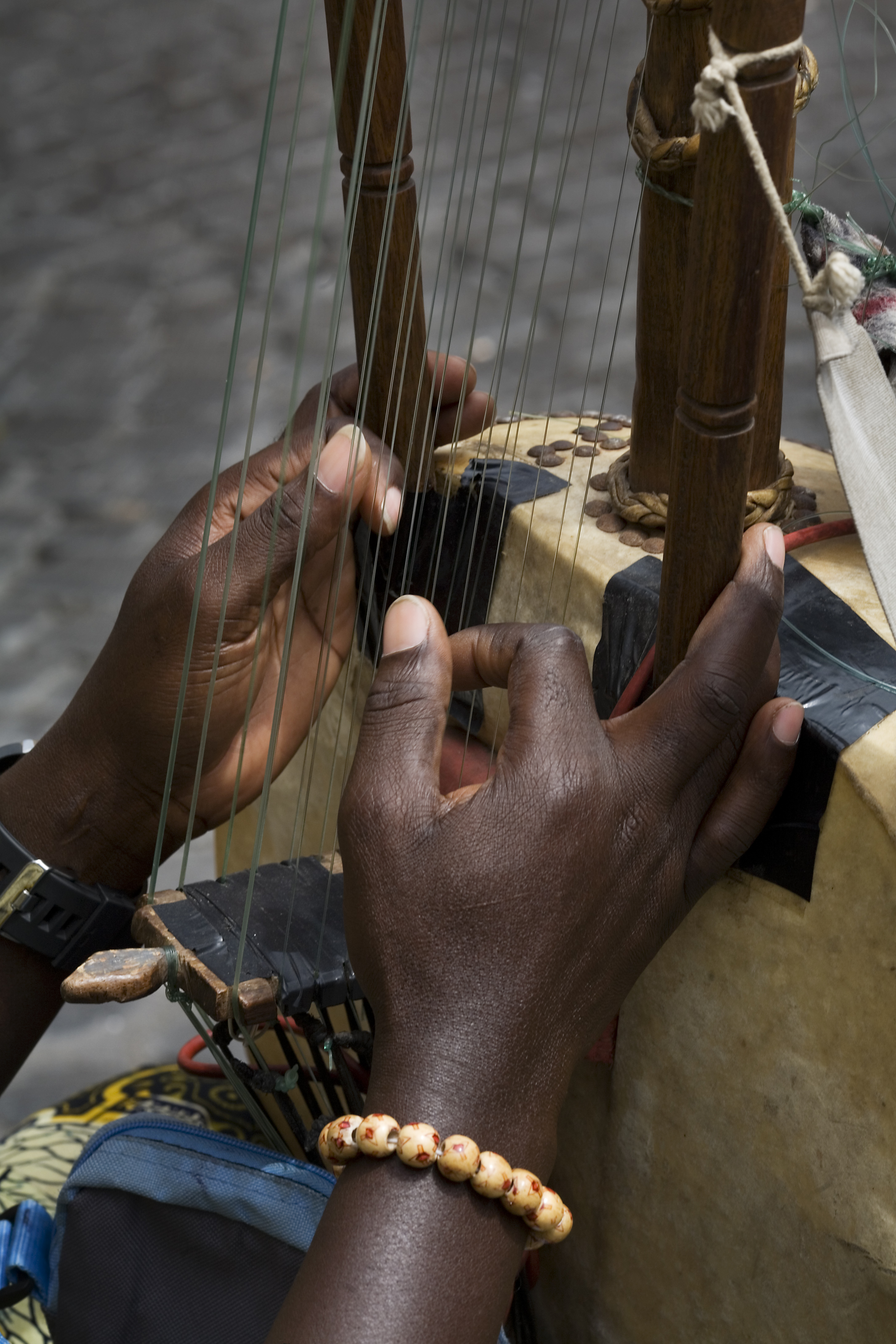 Black hands playing the strings of a 21 string Kora harp-lute, an African musical instrument, Rome, Italy